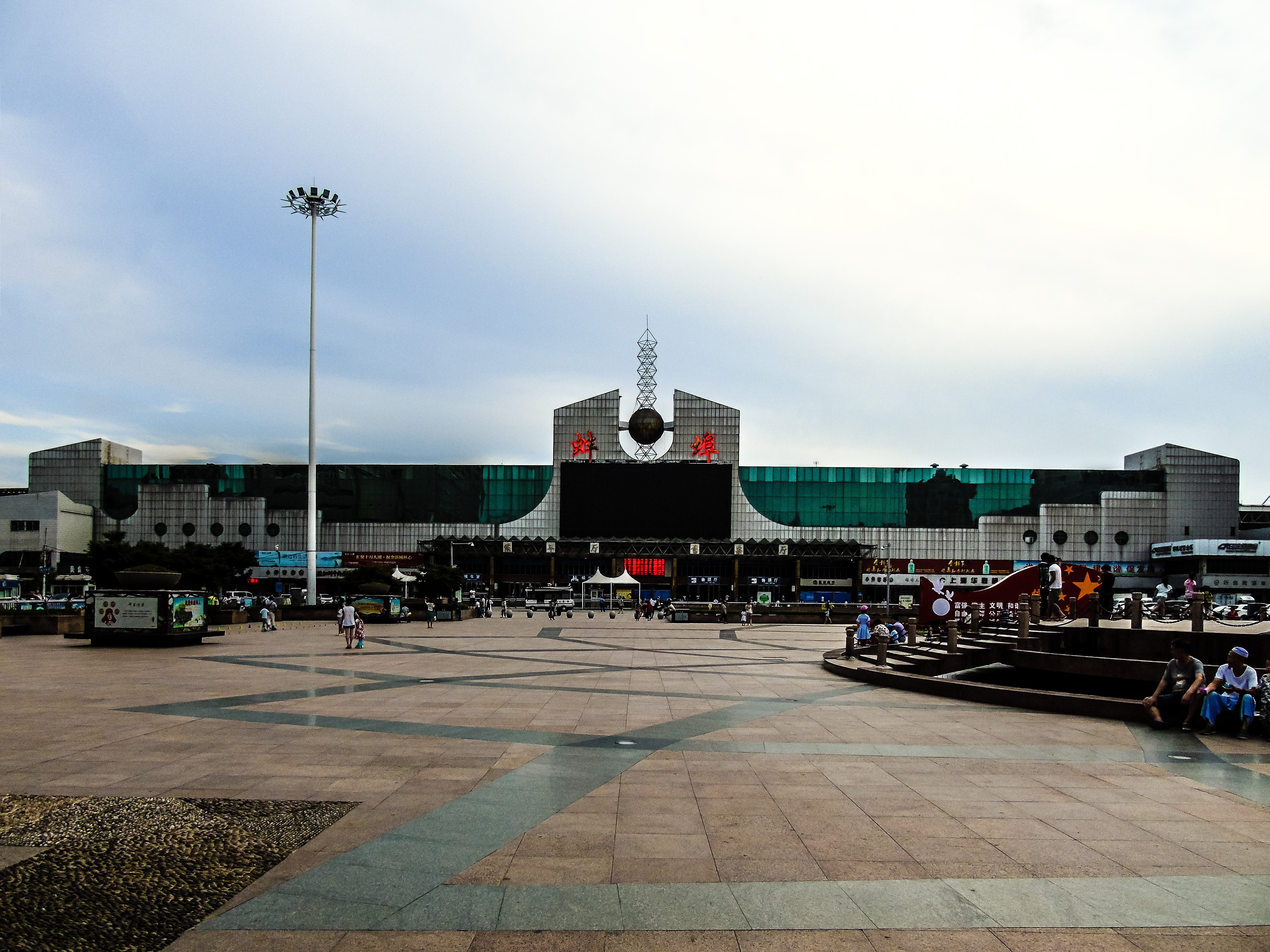 Bengbu Railway Station